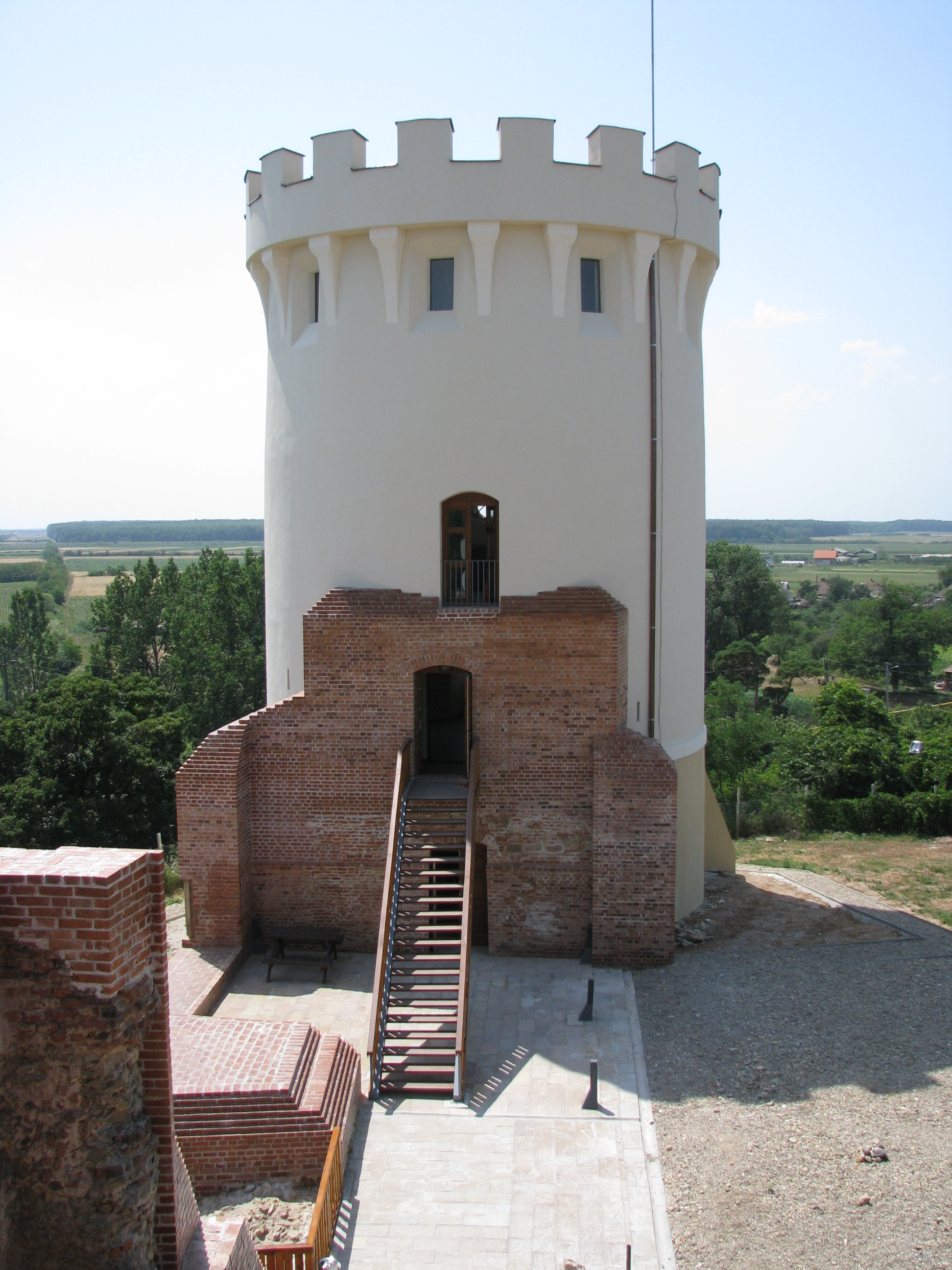 Ardud Fortress, 2012